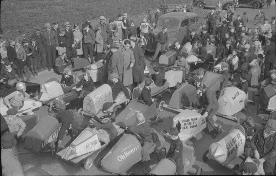 For documentary purposes the original description provided by the BAnQ has been retained. Additional descriptive text may be added by Wikimedians with the "wiki description =" parameter, but please do not modify the other fields.